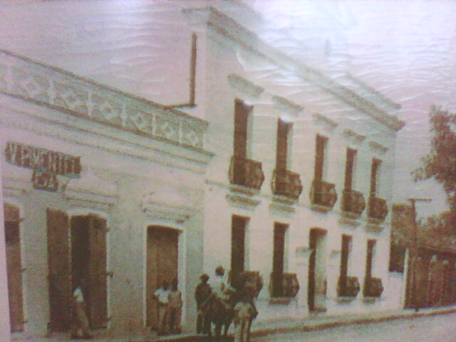 Ancient city of Bani